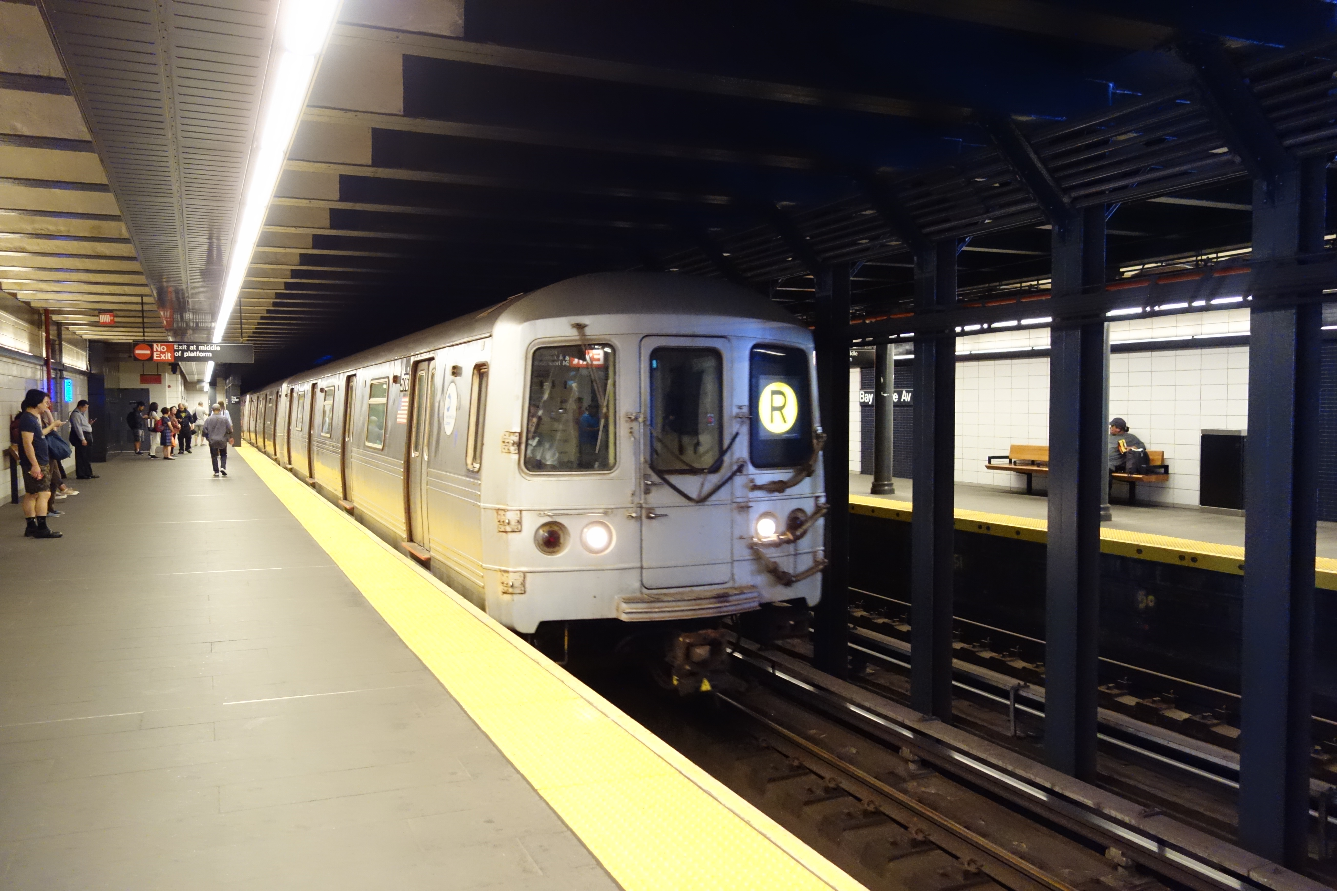 A Forest Hills–71st Avenue-bound R train arriving at the Manhattan-bound platform of the Bay Ridge Avenue BMT station, under 4th Avenue and Bay Ridge Avenue in Bay Ridge, Brooklyn. This platform is much wider than the Brooklyn-bound platform, as it was intended to be the Manhattan-bound express trackway had the station been expanded to four tracks to facilitate a Staten Island river tunnel. Also note that this platform has very few columns. The station was rebuilt in 2017 under the MTA's Enhanced Station Initiative, improving (but not replacing) the station's drab 1970s renovation design.